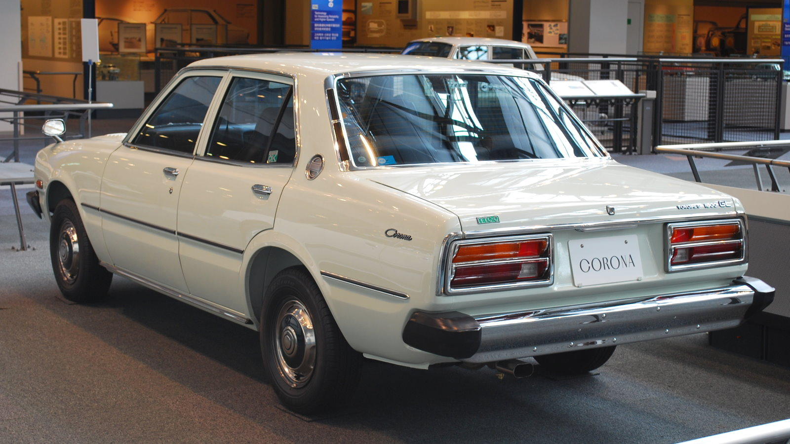 1976 5th generation Toyota Corona 1800 GL (TTC-C equipped, RT102 model code)